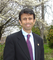 Louisiana congressman Bobby Jindal